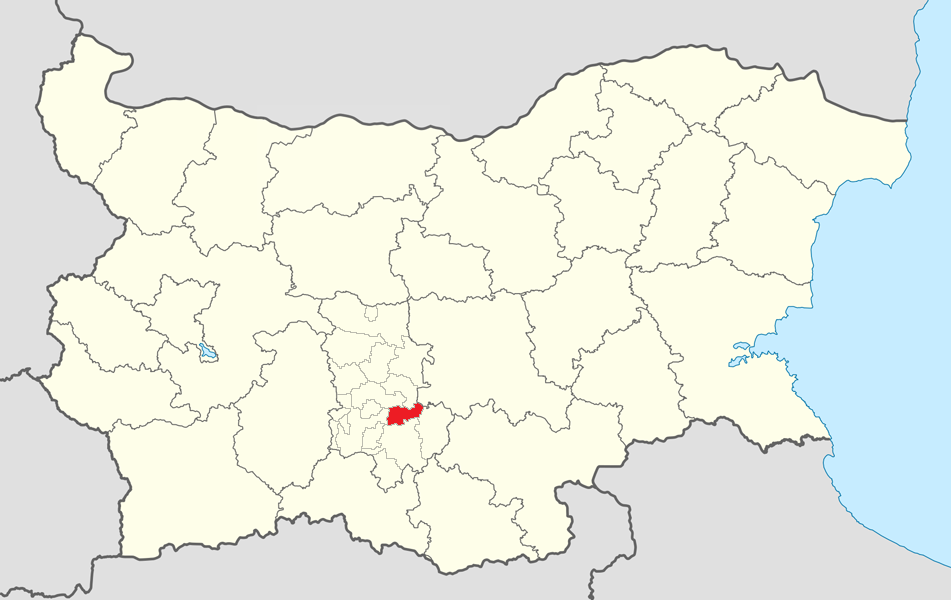 Location map of Sadovo Municipality within Bulgaria and Plovdiv province